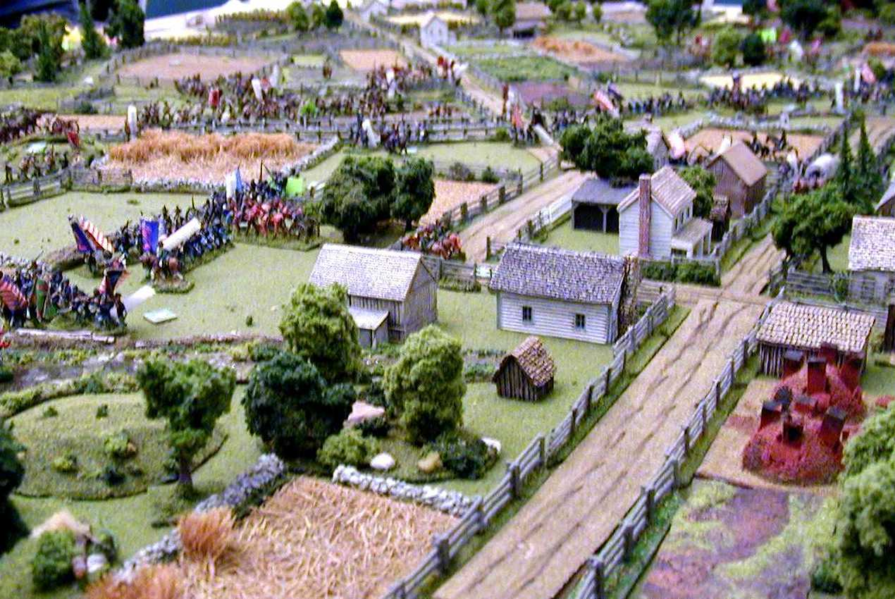 Photo from Cold Wars wargaming convention in Lancaster, PA. 2003. Figures, terrain and houses from the collection of Scott Mingus, author of Enduring Valor:Gettysburg in Miniature and Undying Courage: Antietam in Miniature.